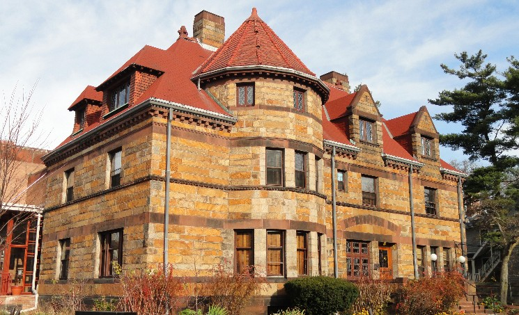 Longy's conservatory campus in Cambridge, MA